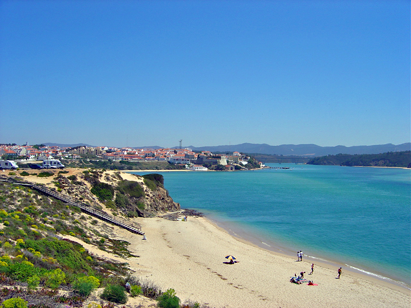 River Mira at Vila Nova de Milfontes, Nature Park of Southwest Alentejo and Cape St. Vicente Coast This is a photography of a Site of Community Importance in Portugal with the ID: PTCON0012. Natura2000 entry, EEA entry